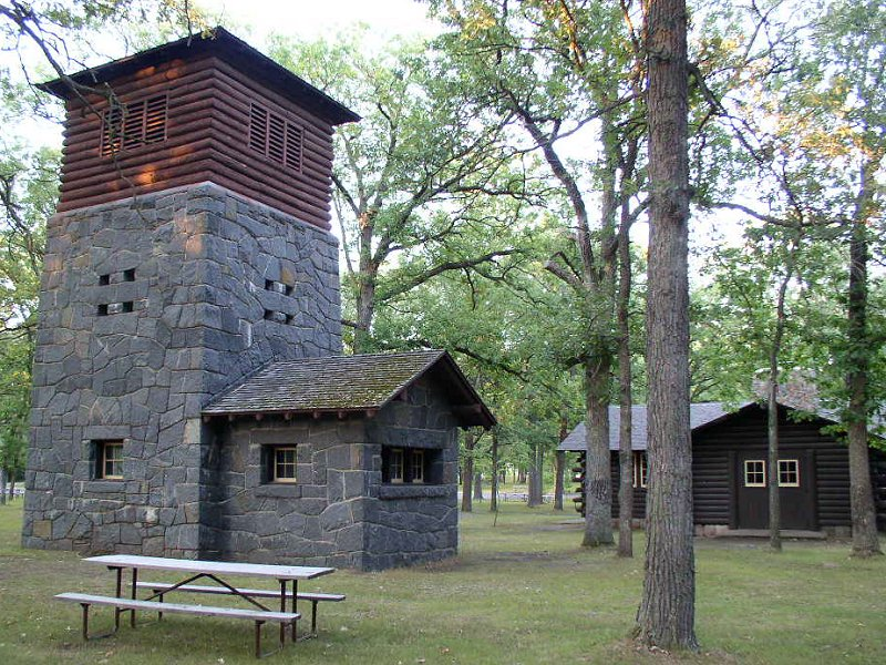 WPA/Rustic Style stone water tower and other buildings in Charles A. Lindbergh State Park, Little Falls, MN, USA